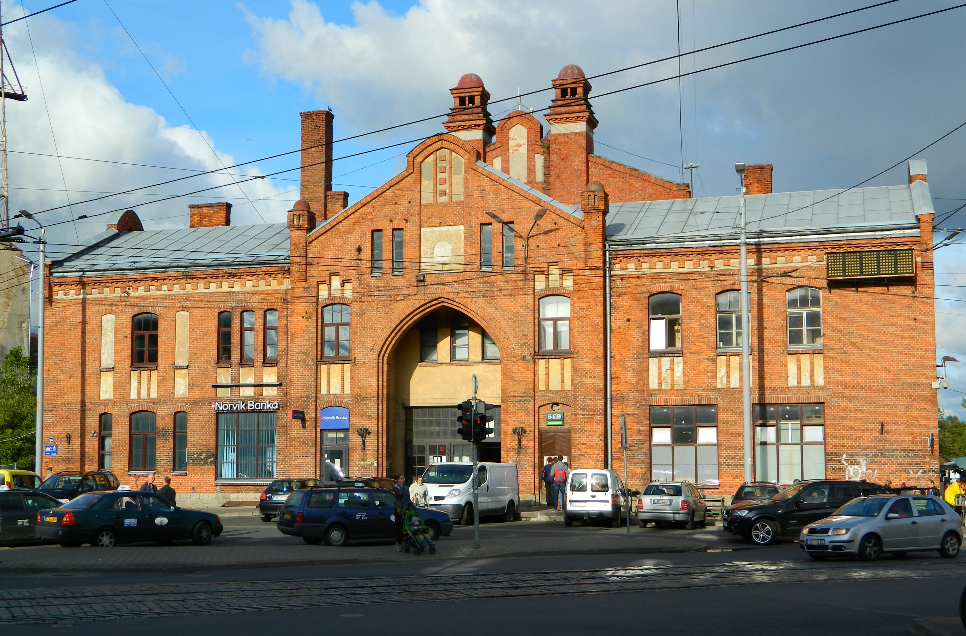 Āgenskalns market, Rīga, Nometņu iela 64